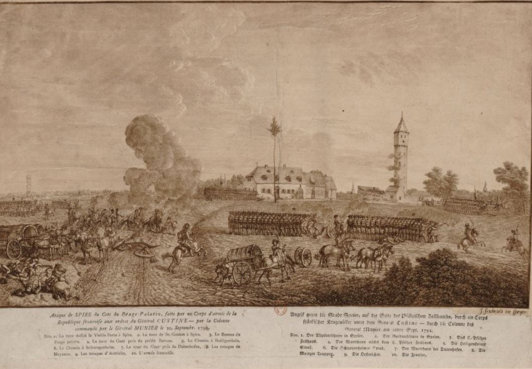 Battle at Speyer in 1792.